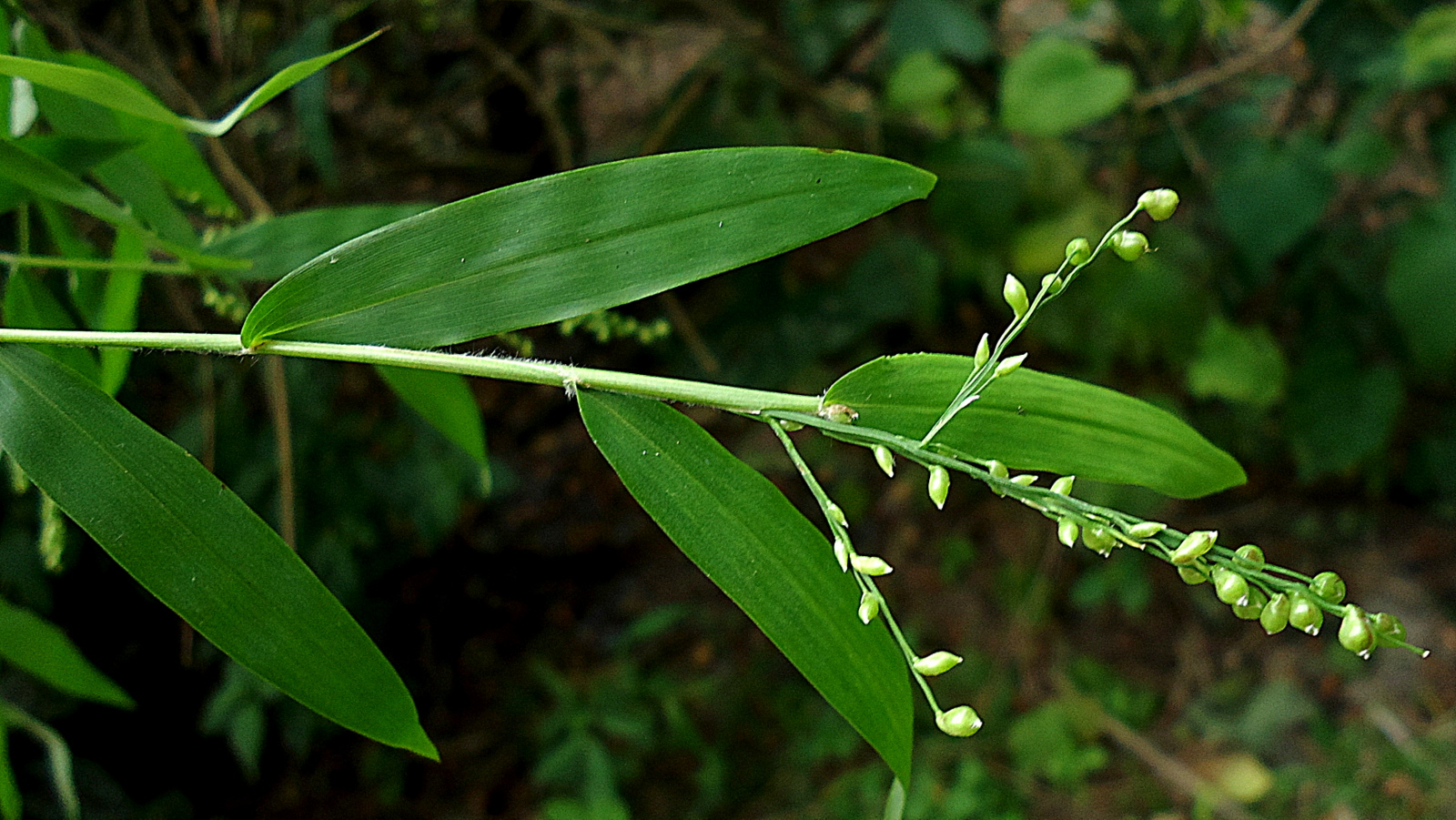 Lasiacis ligulata Hitahc. & Chase, Poaceae, Atlantic forest, northeastern Bahia, Brazil